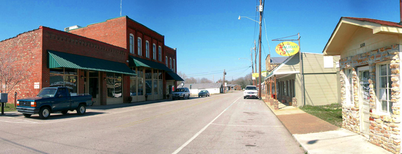 A panoramic image of the New Hope's main street as it runs through downtown.